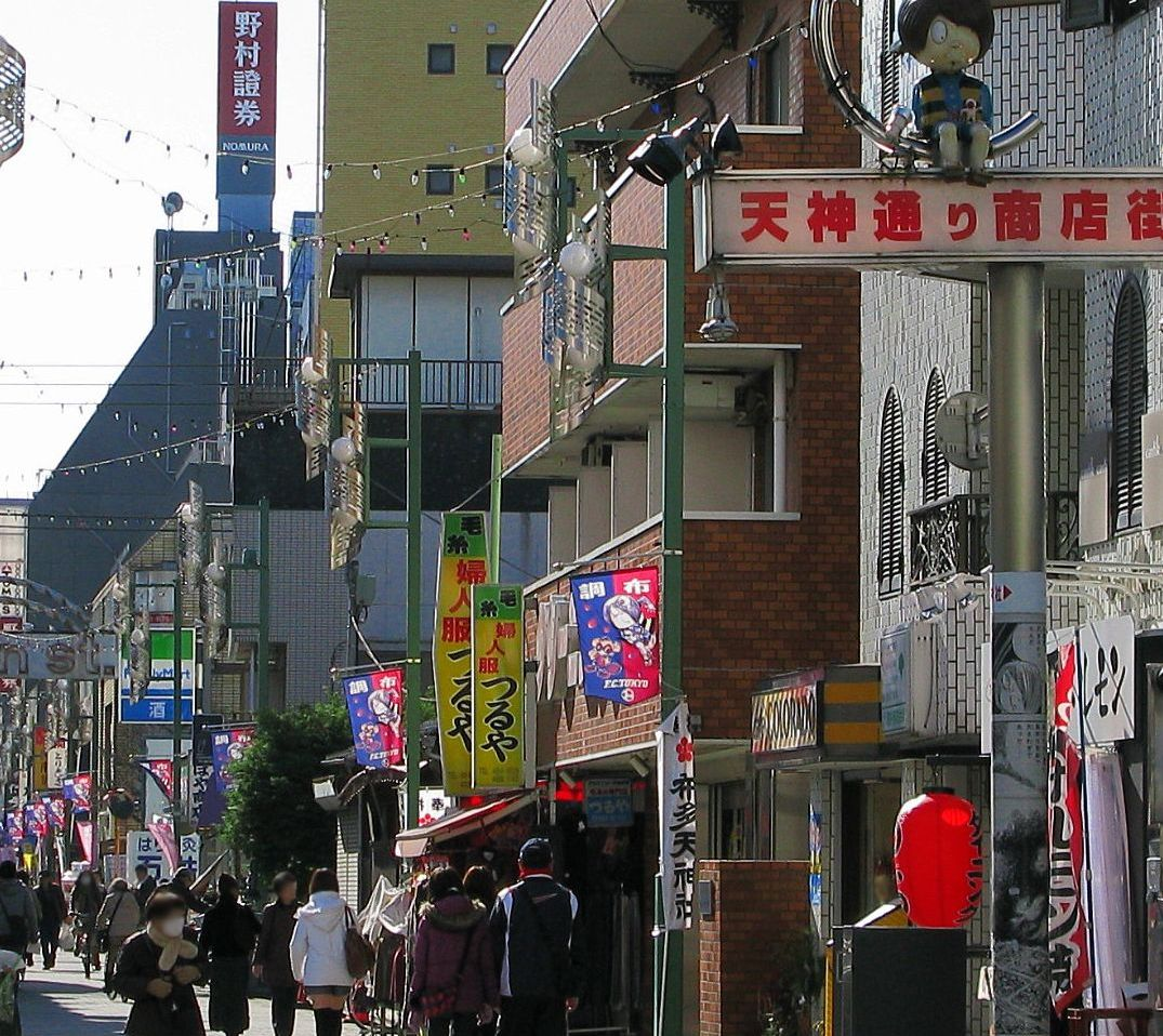 in shopping street,Flags of GeGeGe-no-Kitaro with F.C.Tokyo